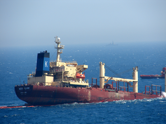 New Flame sinking off Europa Point, Gibraltar.